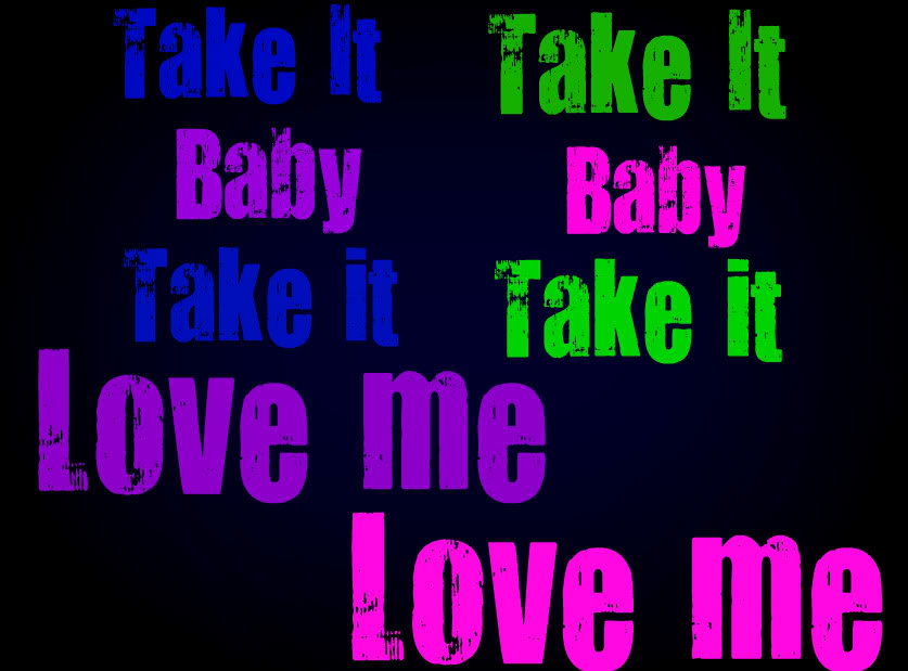 "Rude Boy" lirics.